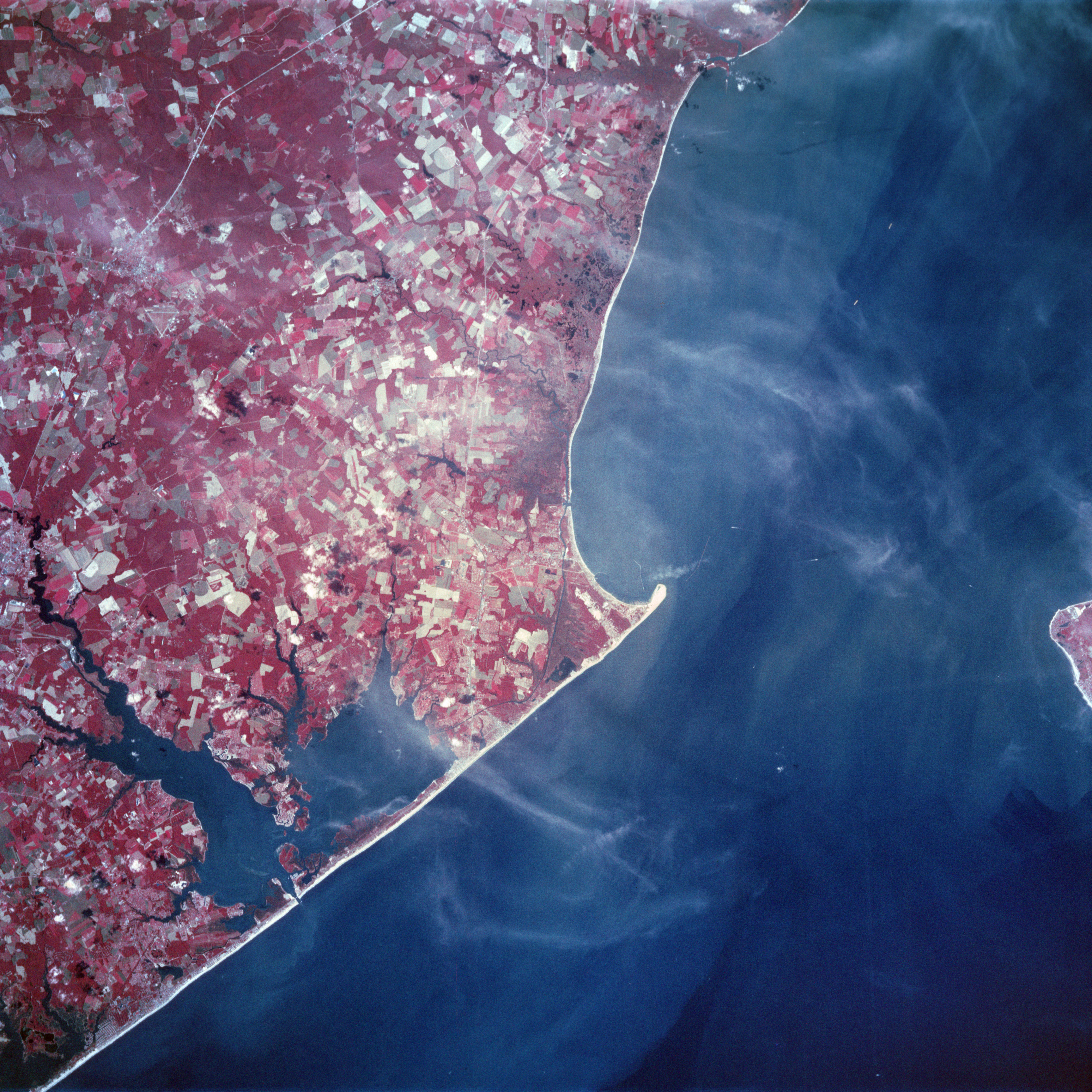 Cape Henlopen, southern Delaware Bay, in Delaware, USA - October 1994 The small sand spit seen here near the center of this color infrared image is Cape Henlopen. This feature is located along the southwest side of the entrance to Delaware Bay (Cape May Point-NJ-is the small tip of land northeast of Cape Henlopen). Several swampy, wetland areas are visible along the Delaware coast: both on the Atlantic Ocean facing shore (Rehoboth and Indian River Bays) and along the south side of Delaware Bay immediately northwest of Cape Henlopen. The color infrared image helps to accentuate the predominately agricultural landscape (angular field patterns). The deeper reds indicate clusters of forested lands. A short section of U. S. Highway 113 (linear, light colored line) is visible near the upper left corner of the image.